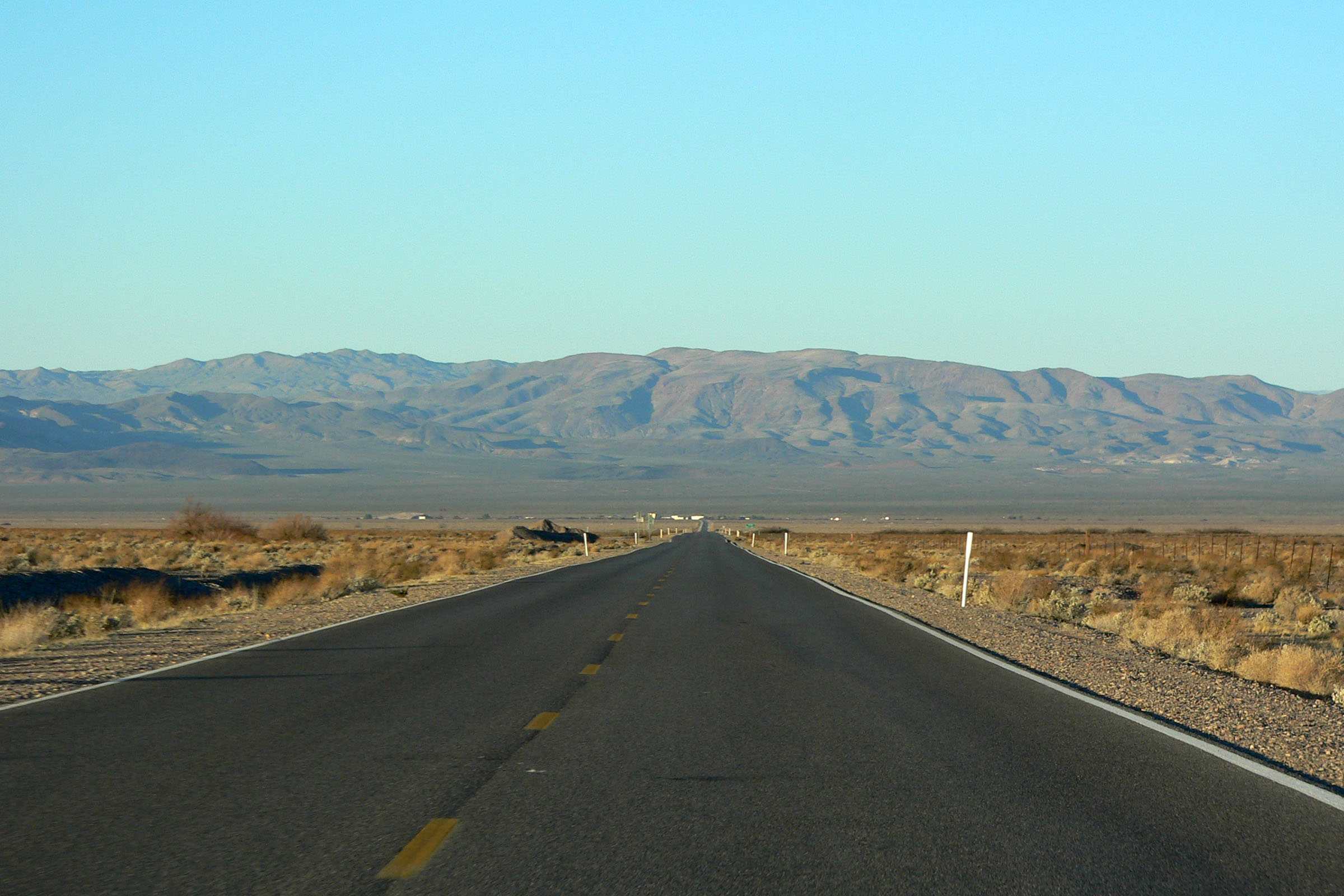 Death Valley Junction, California, seen from State Line Rd, just inside Nevada (green sign for border is visible in distance)